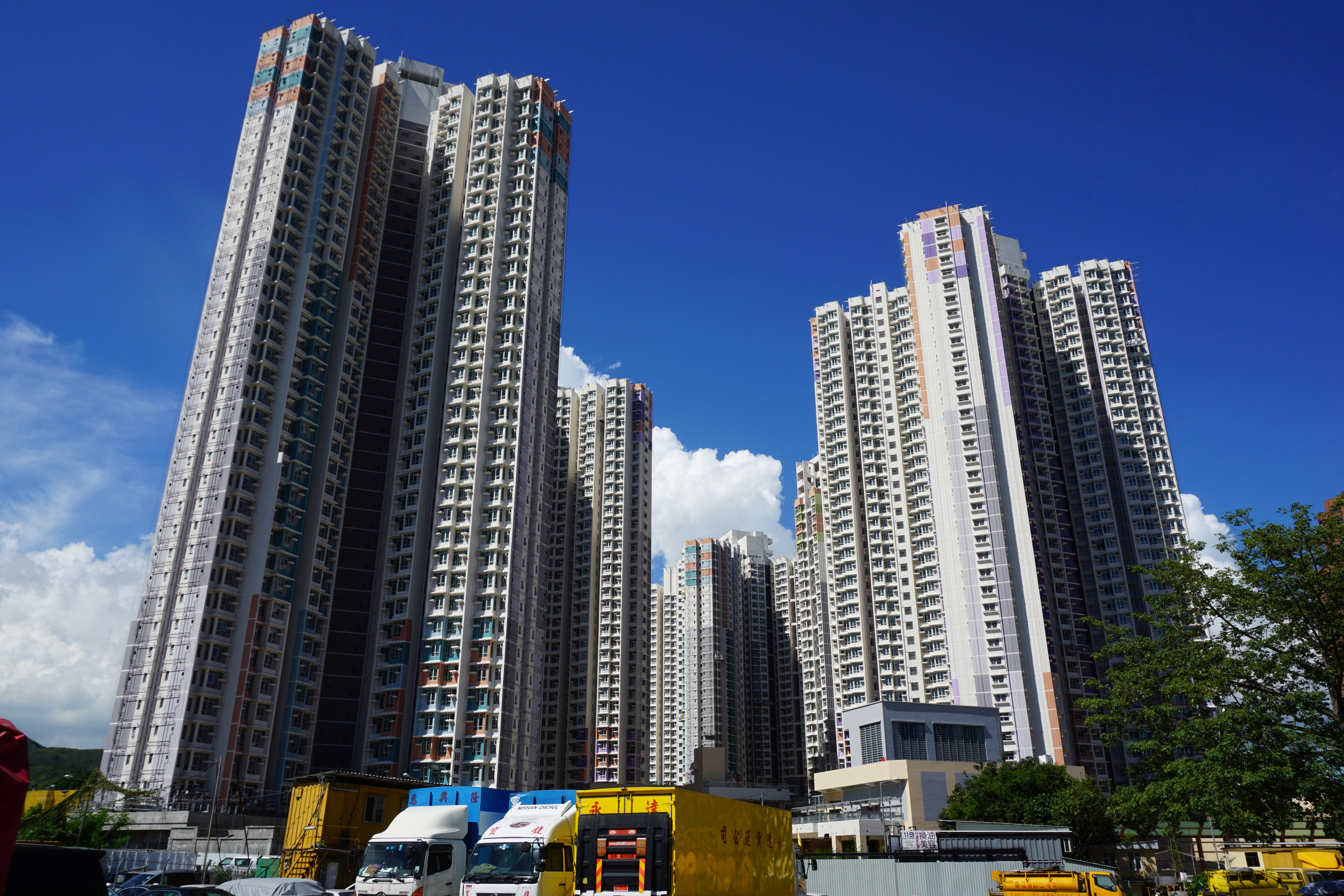 Yan Tin Estate in Tuen Mun, Hong Kong.